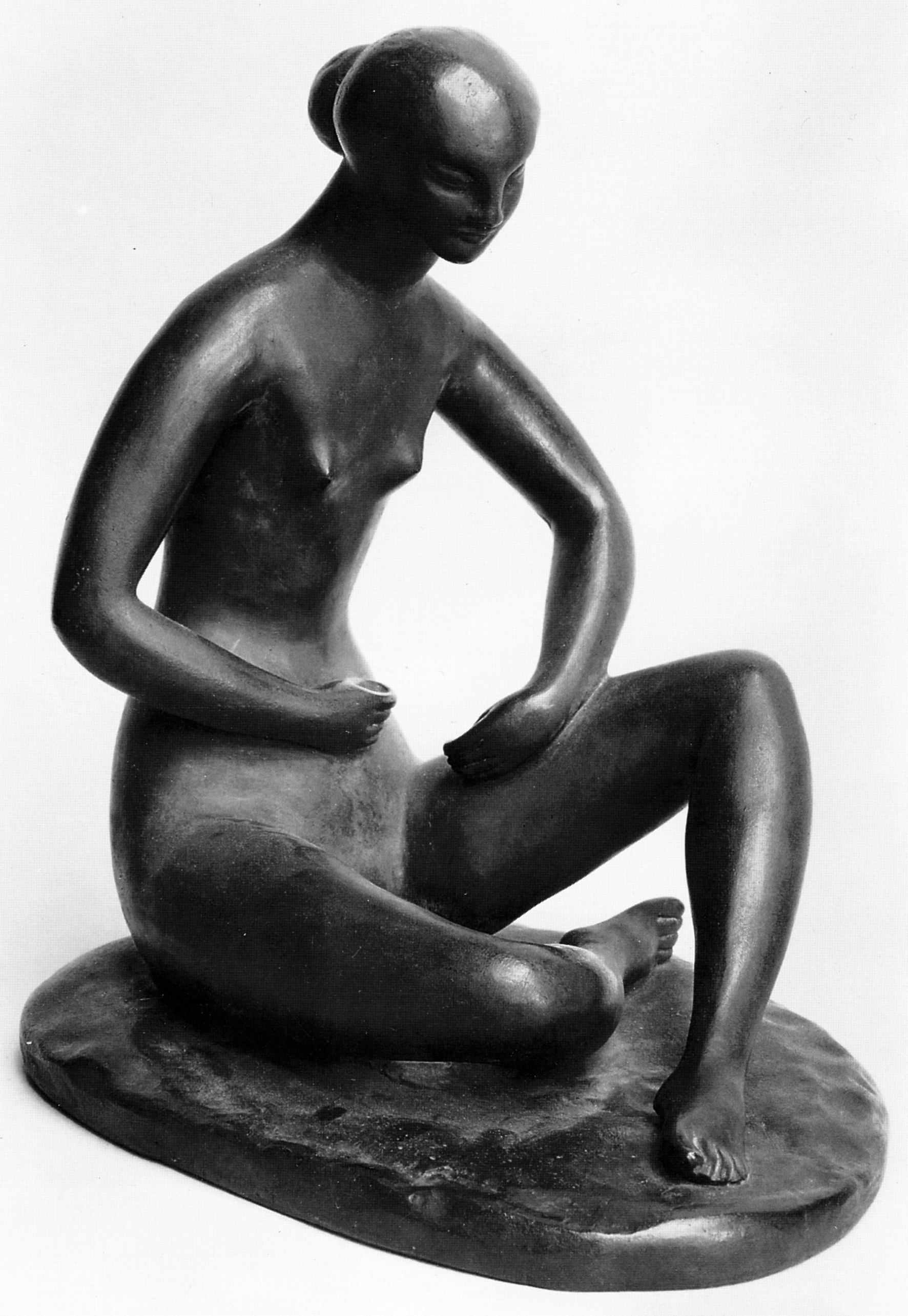 With permission by the legal sucessor Mark Lammert.